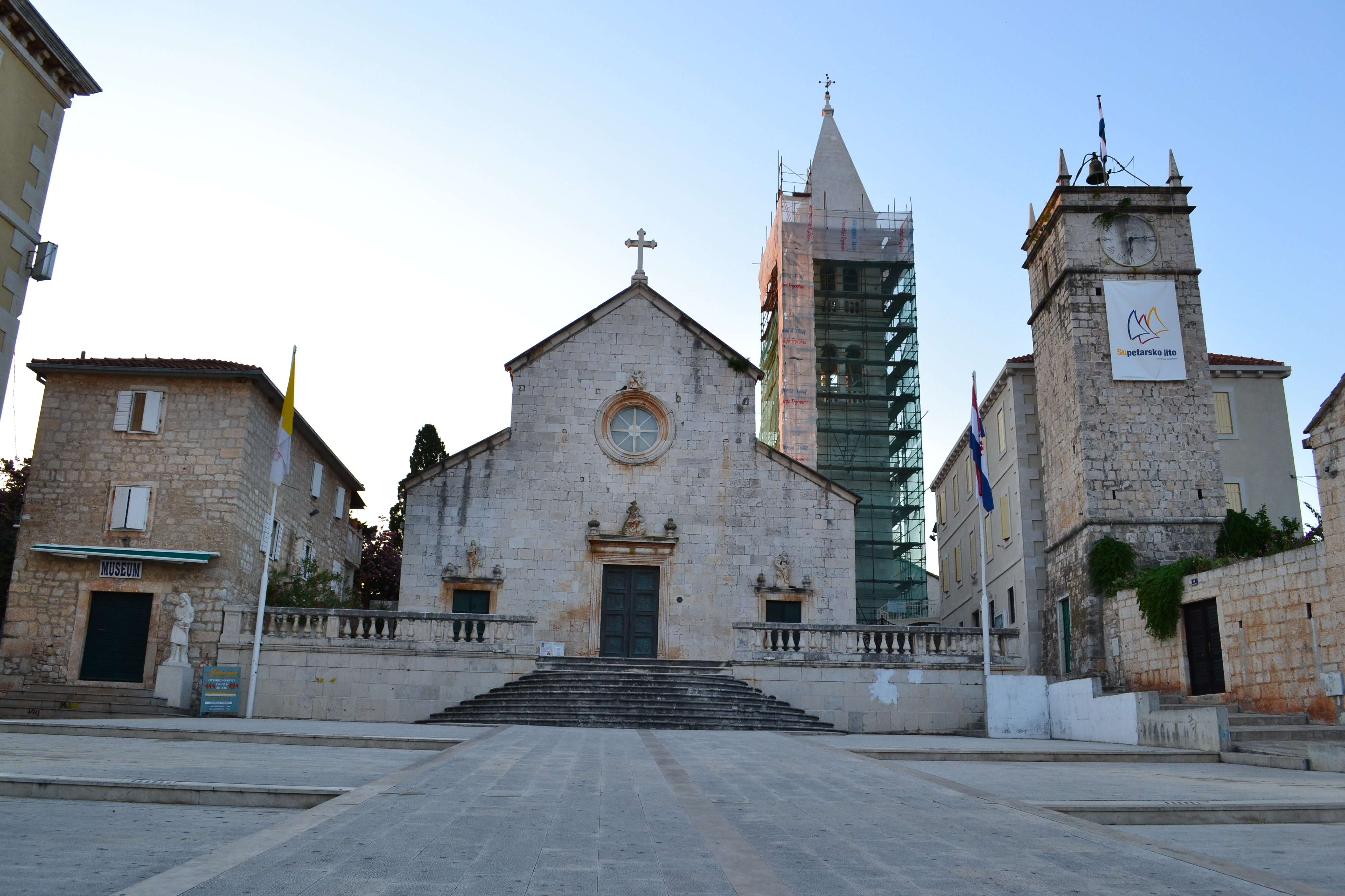 Town Supetar, island Brac, Split-Dalmatia County, Croatia. Parish church of St. Peter with bell tower. Left - the museum, right - сity tower.